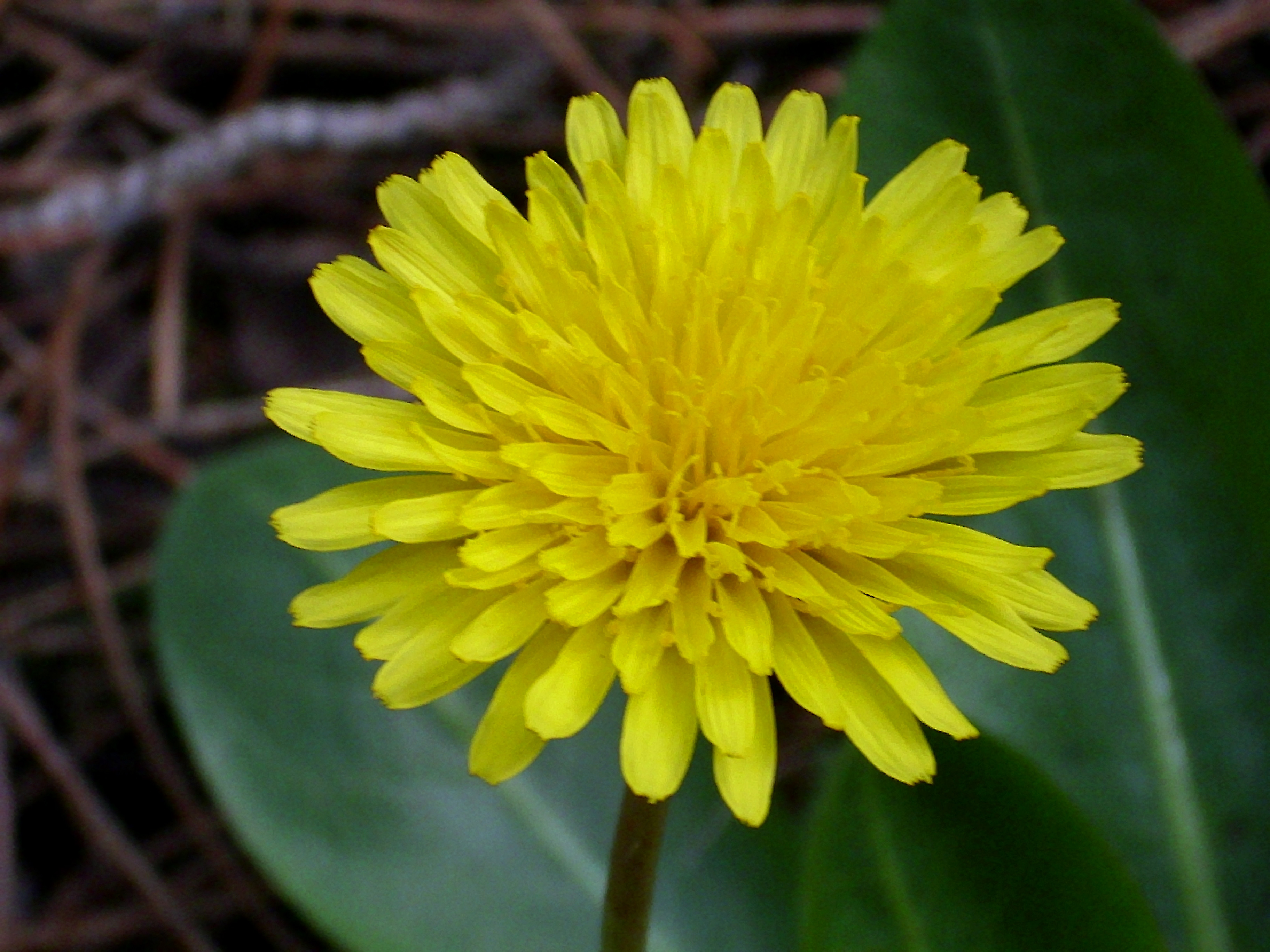 Taraxacum obovatum inflorescence, Dehesa Boyal de Puertollano, Spain